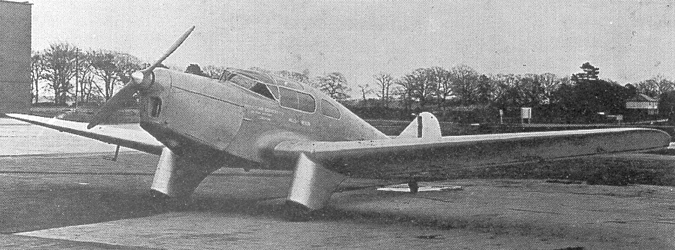 Miles M.4 Merlin U-8, later G-ADFE